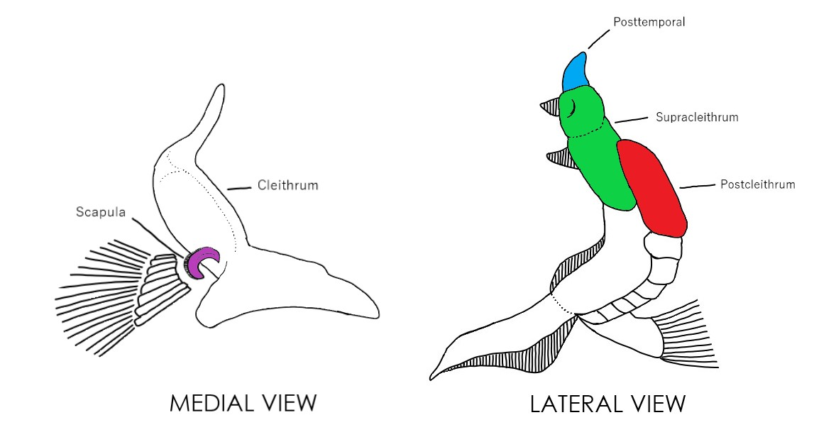 Lateral and ventral views of Lepisosteidae pectoral girdle.